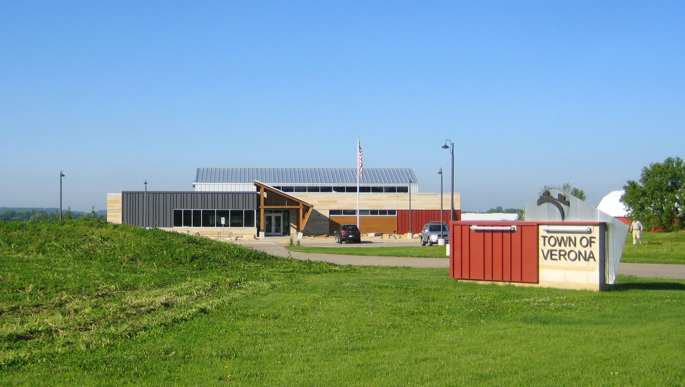 Town hall and sign in Town of Verona, Wisconsin.